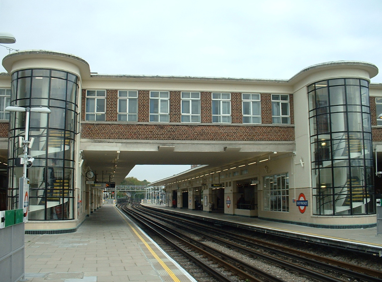 Looking north from the central platforms at East Finchley tube station, only used by trains terminating from the north, or leaving the depot to the south. Note architecture! Sunil060902, 8th October 2007.